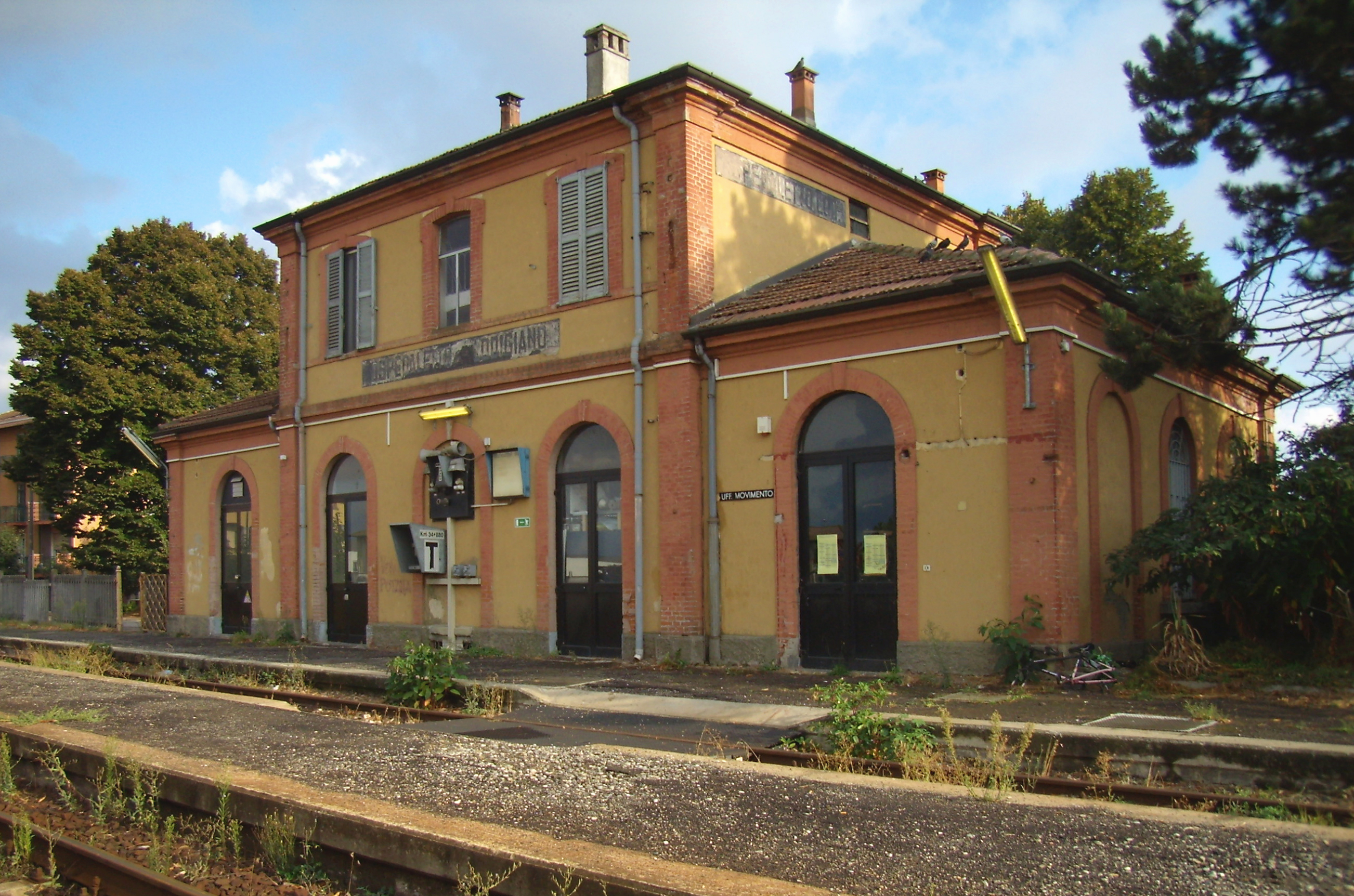 Railway station in Ospedaletto Lodigiano, Italy.